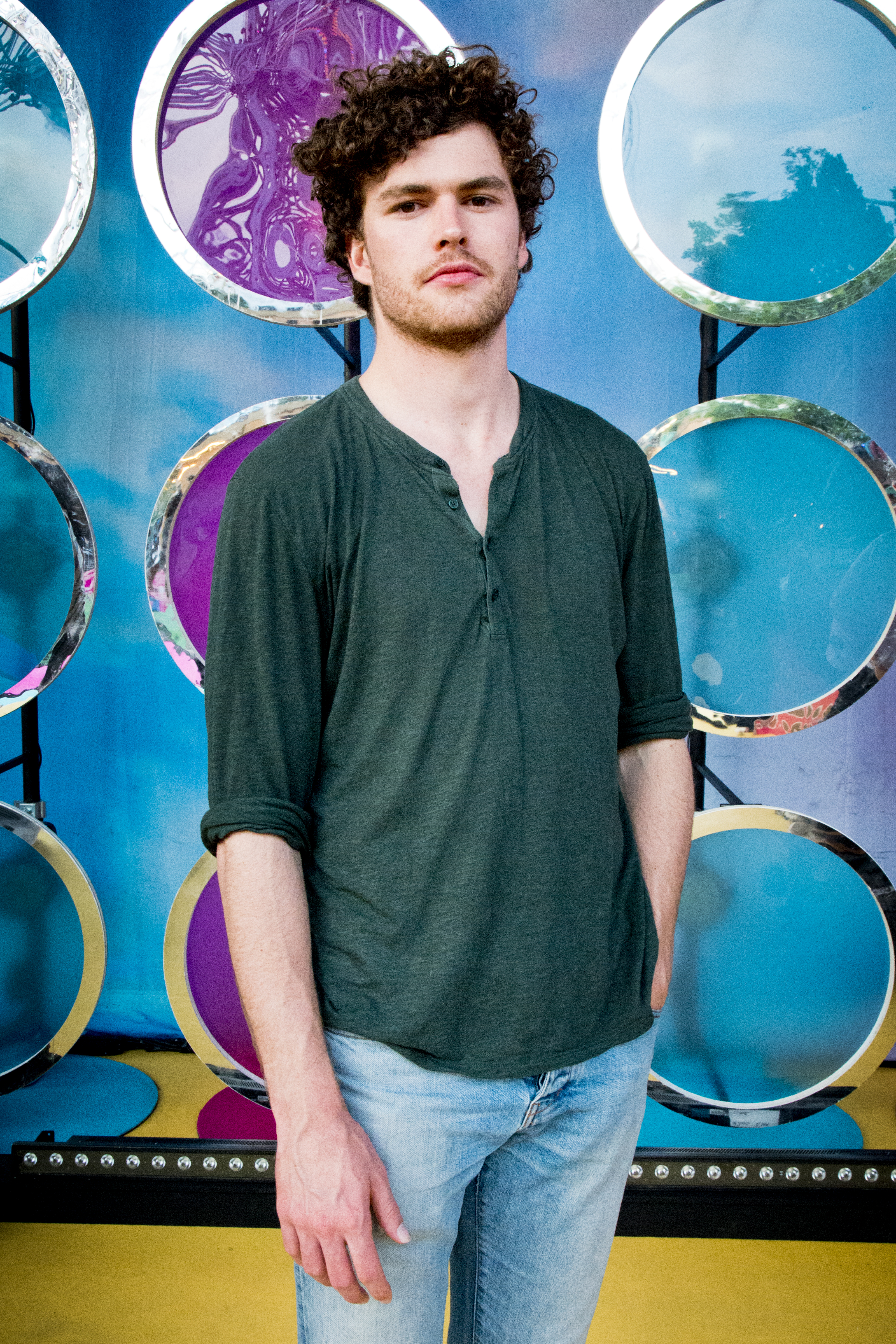 Vance Joy at Sommarkrysset in Gröna Lund, Stockholm